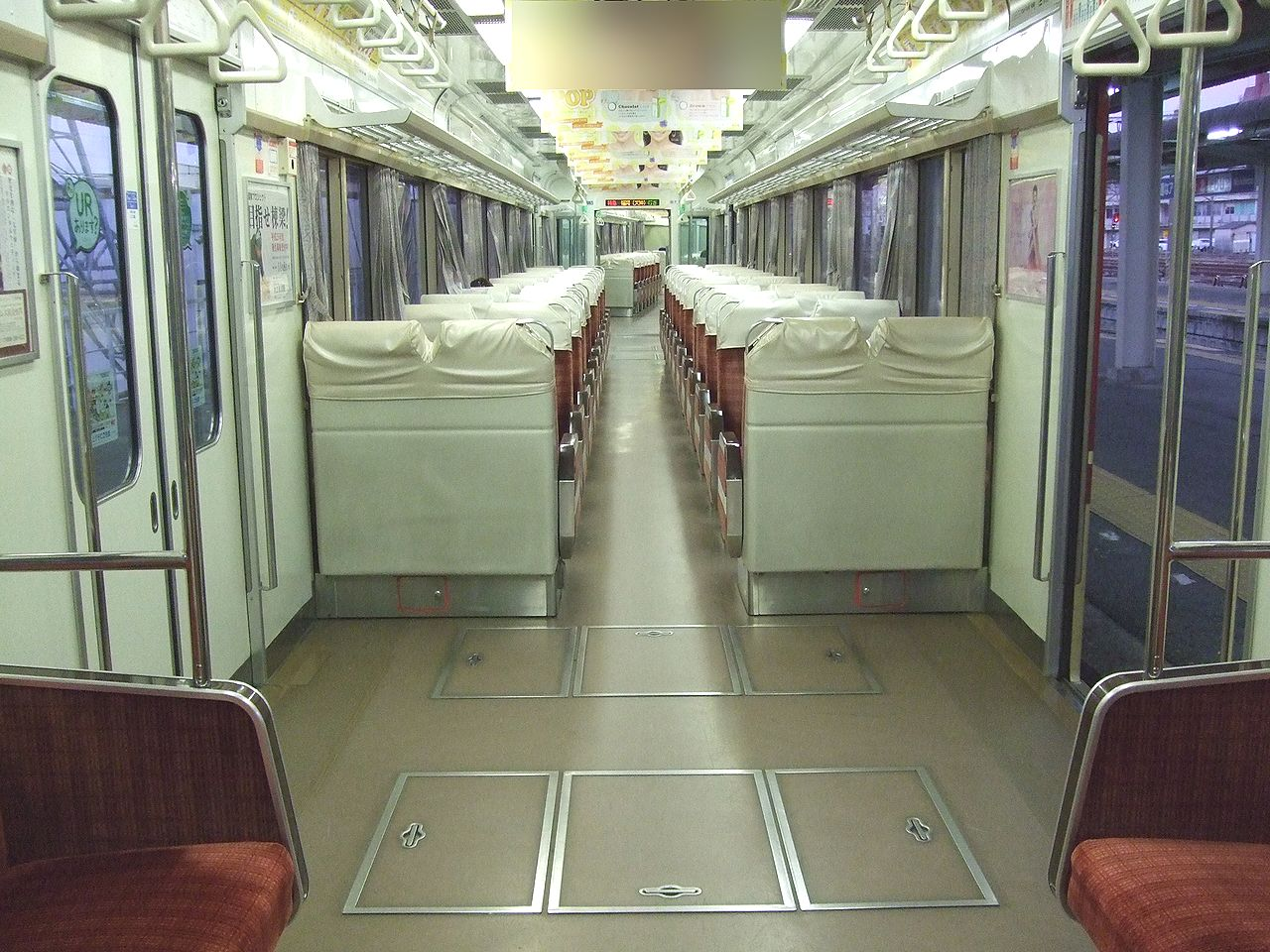 The inside of Nishitetsu EMU No.8065